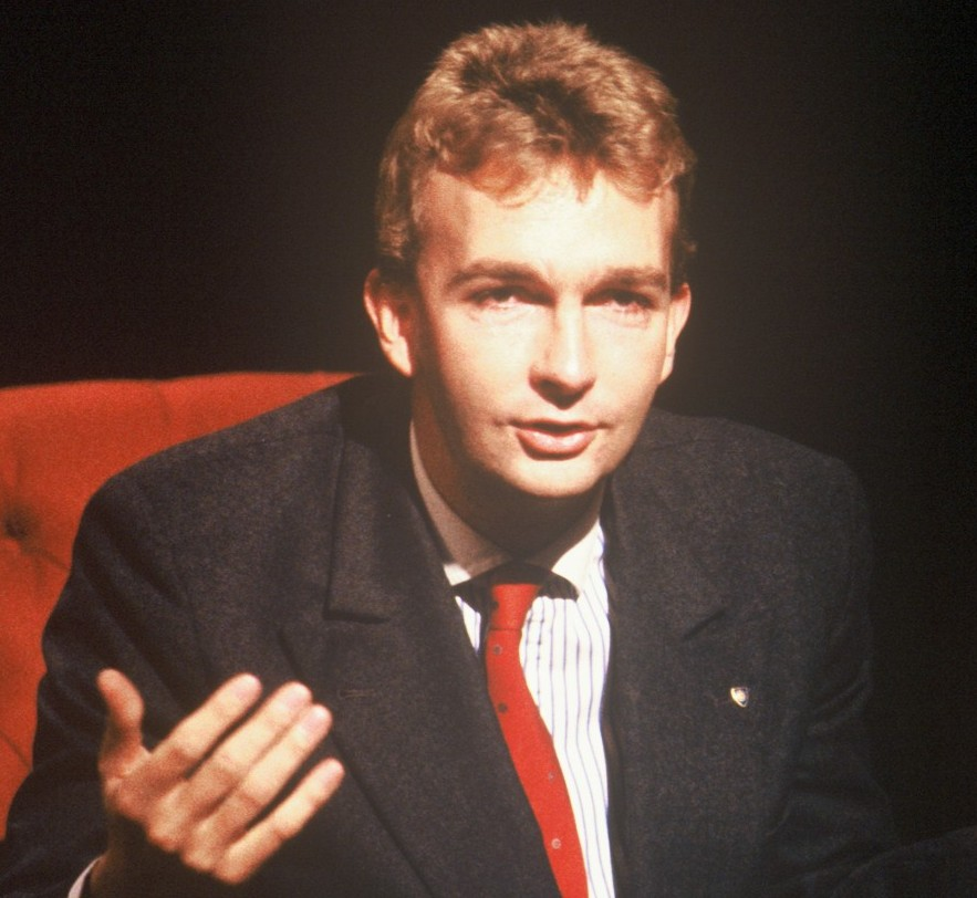 Archduke Karl von Habsburg appearing on After Dark on 21 October 1989. Other guests included Andrew Morton and Peregrine Worsthorne.